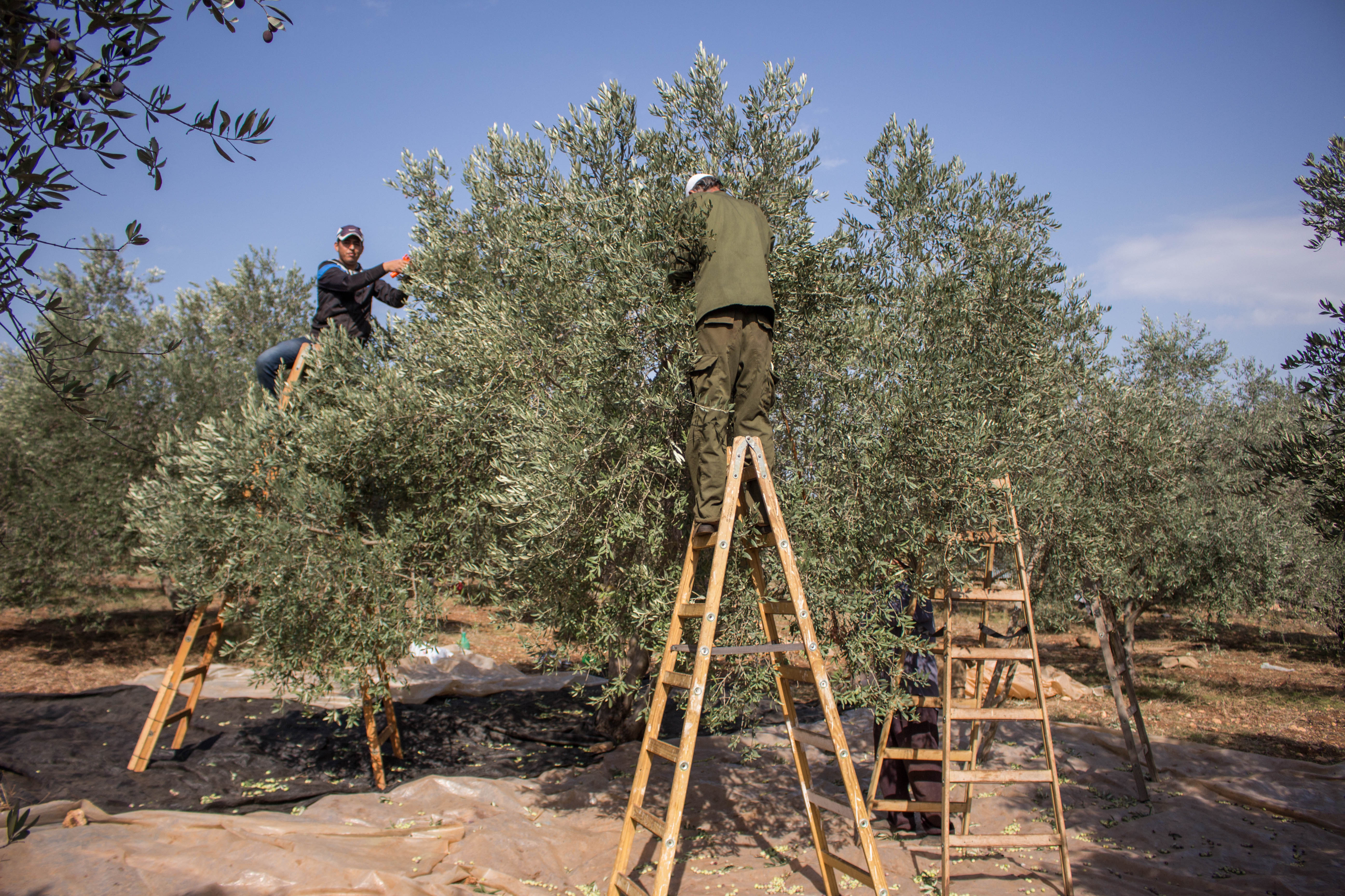 A family of Palestinian farmers harvesting olives using traditional methods in the Jenin area, November 2015. An example of Agriculture in the Palestinian territories.